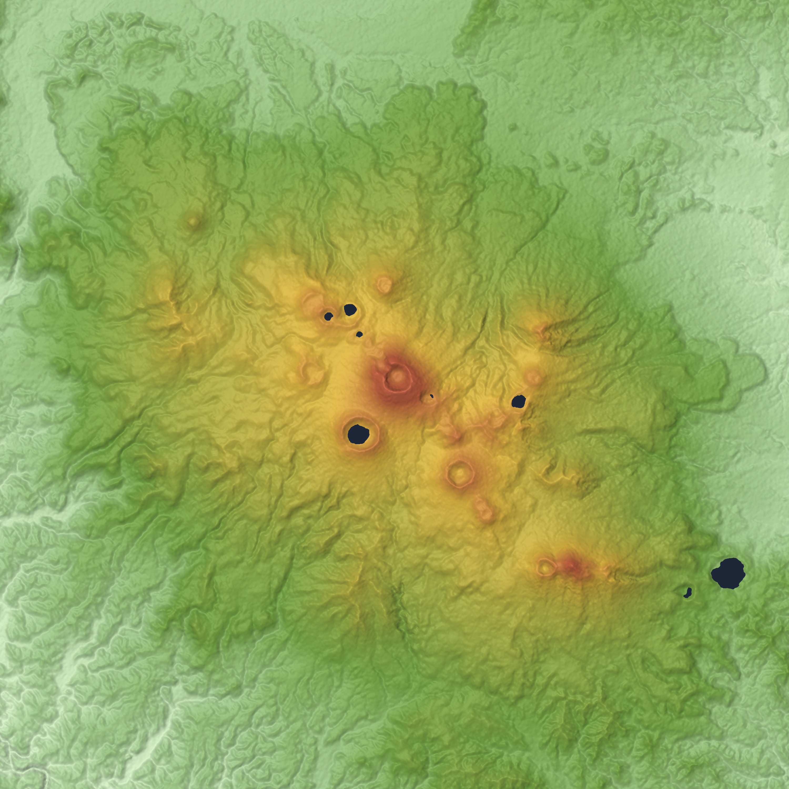 Kirishima Volcano in the border between Miyazaki and Kagoshima Prefectures, Kyushu, Japan.